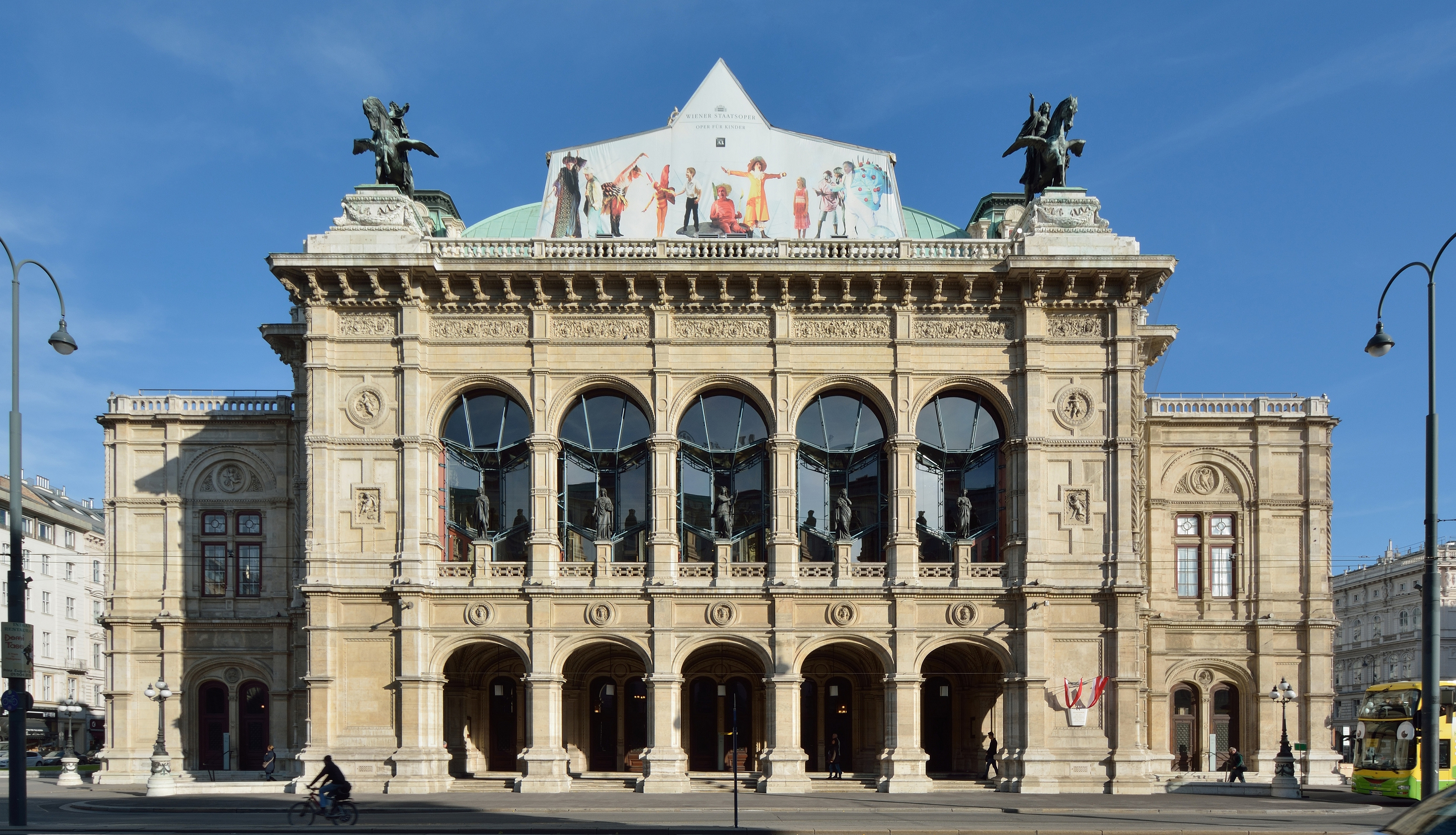 Vienna State Opera, facade